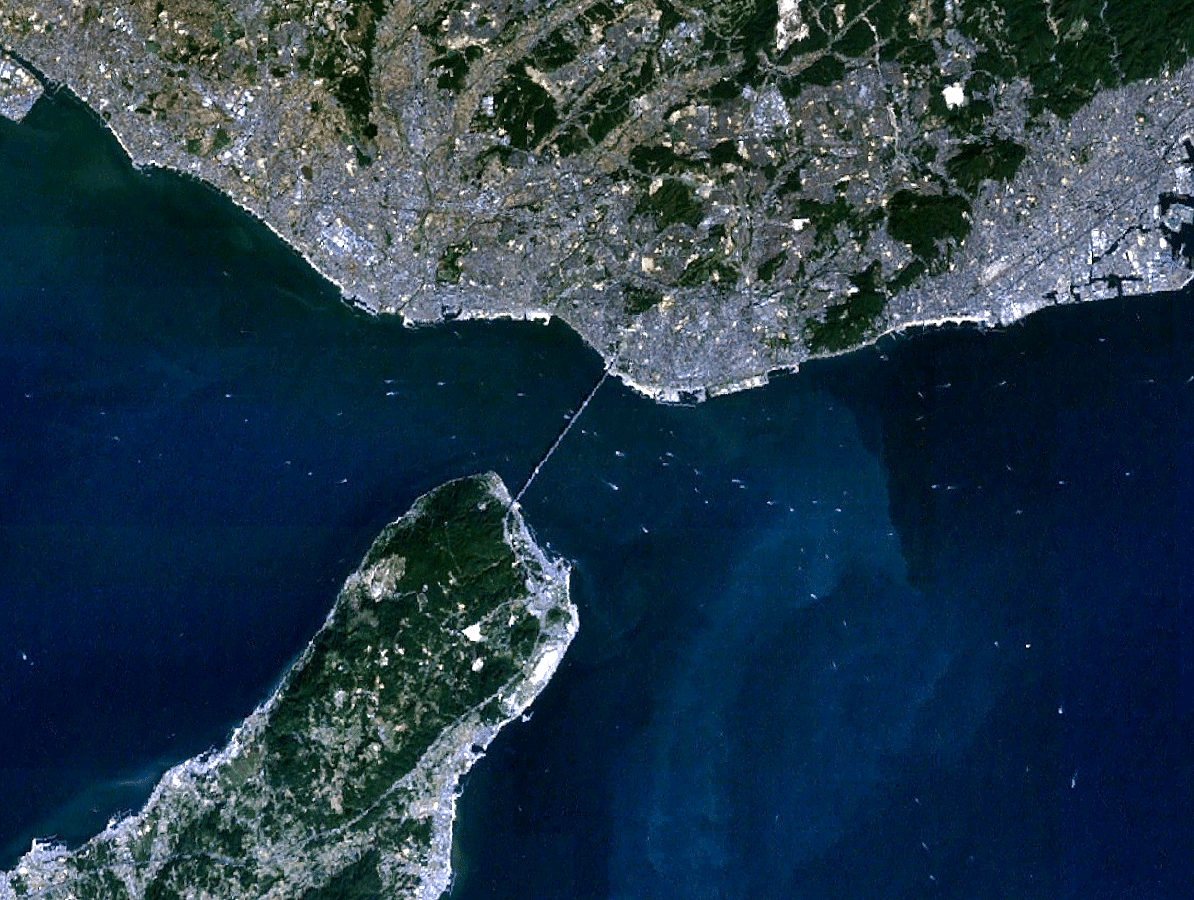 the view of Akashi Strait in Japan, from Landsat, generated on NASA World Wind.